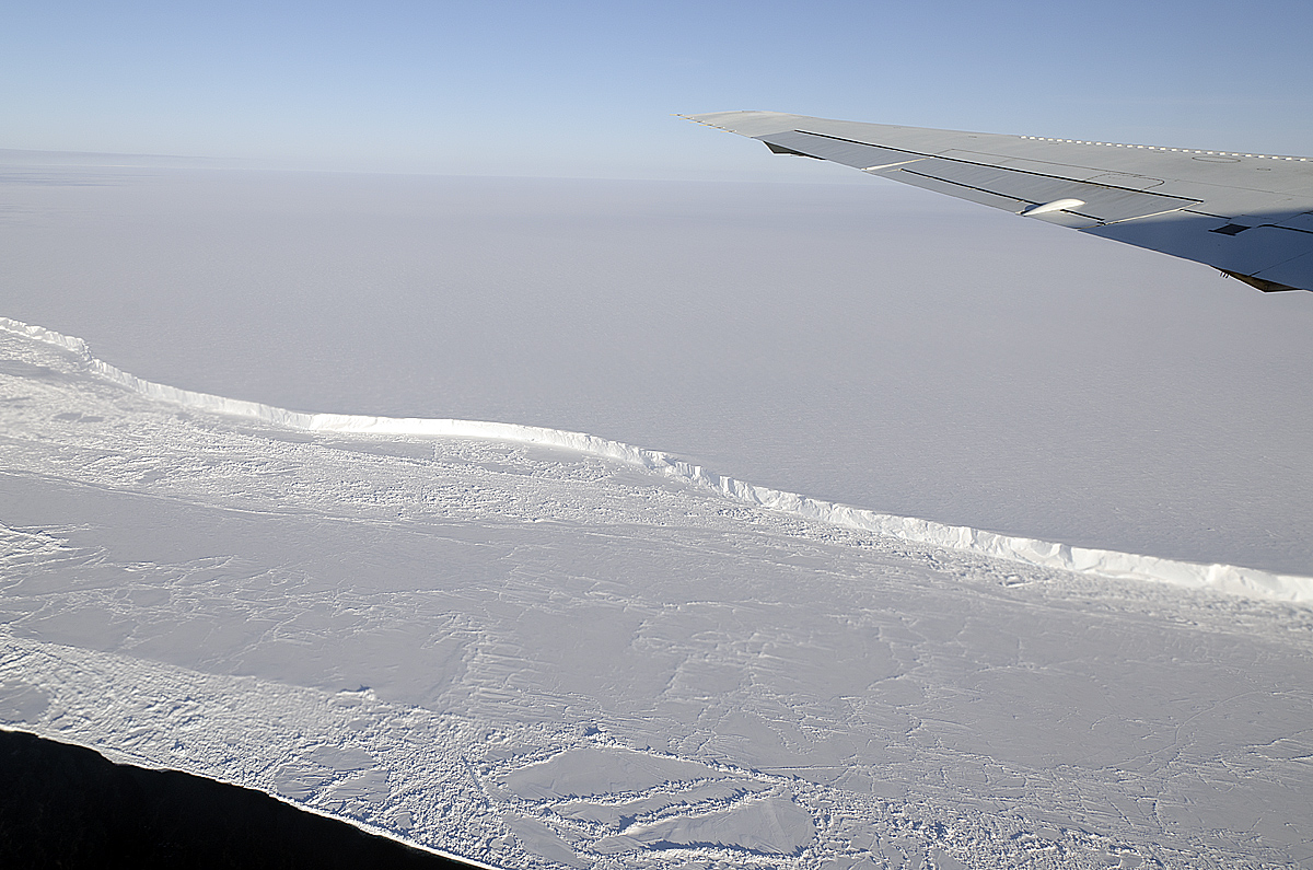 On the maiden flight of Operation IceBridge's Antarctica 2011 campaign NASA's DC-8 took in this view of clean line of the Brunt Ice Shelf and the massive extent of its smooth surface.